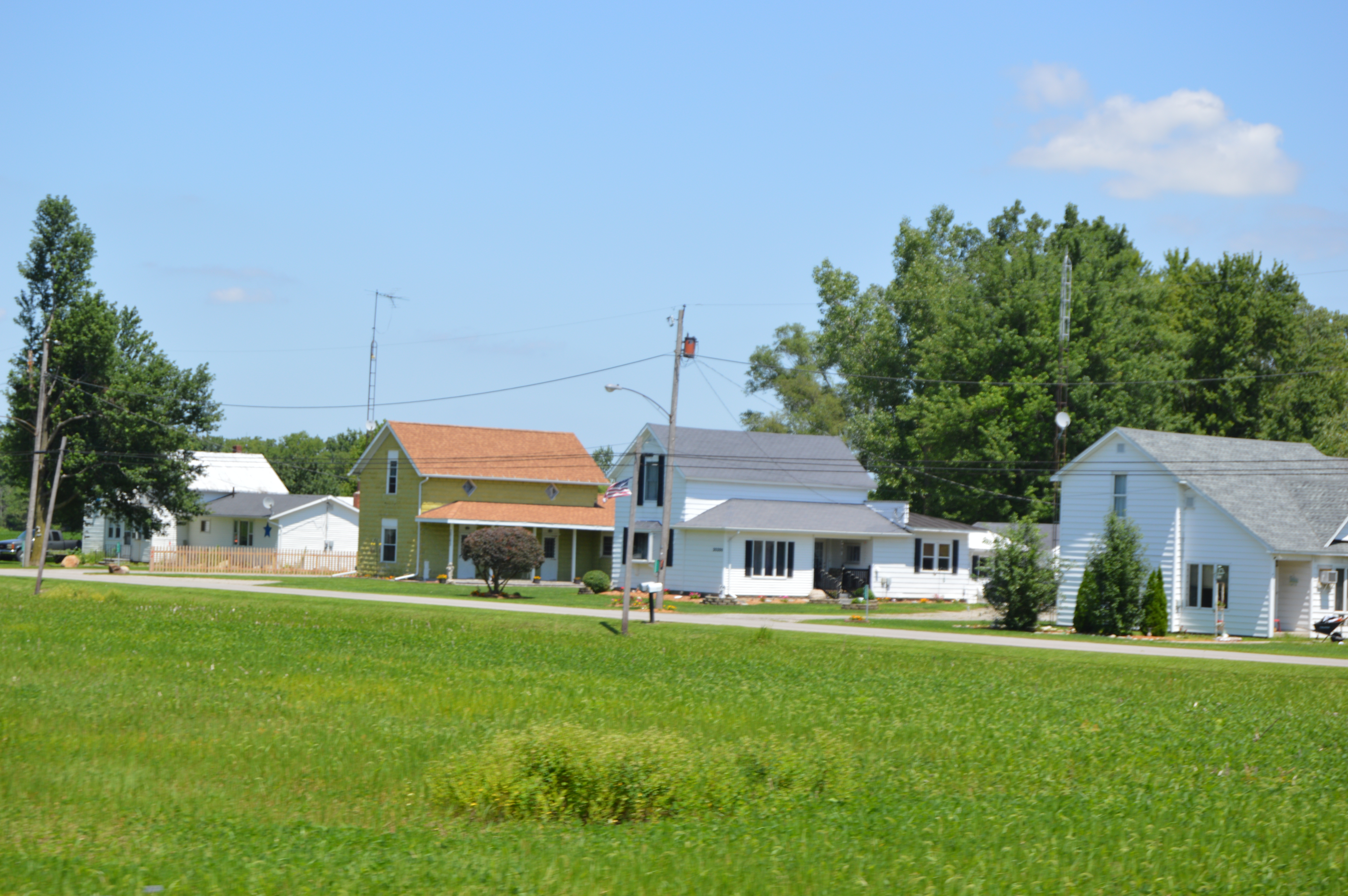 Houses on the eastern side of Road 18R, looking north from State Route 189, at Rimer in Sugar Creek Township, Putnam County, Ohio, United States.